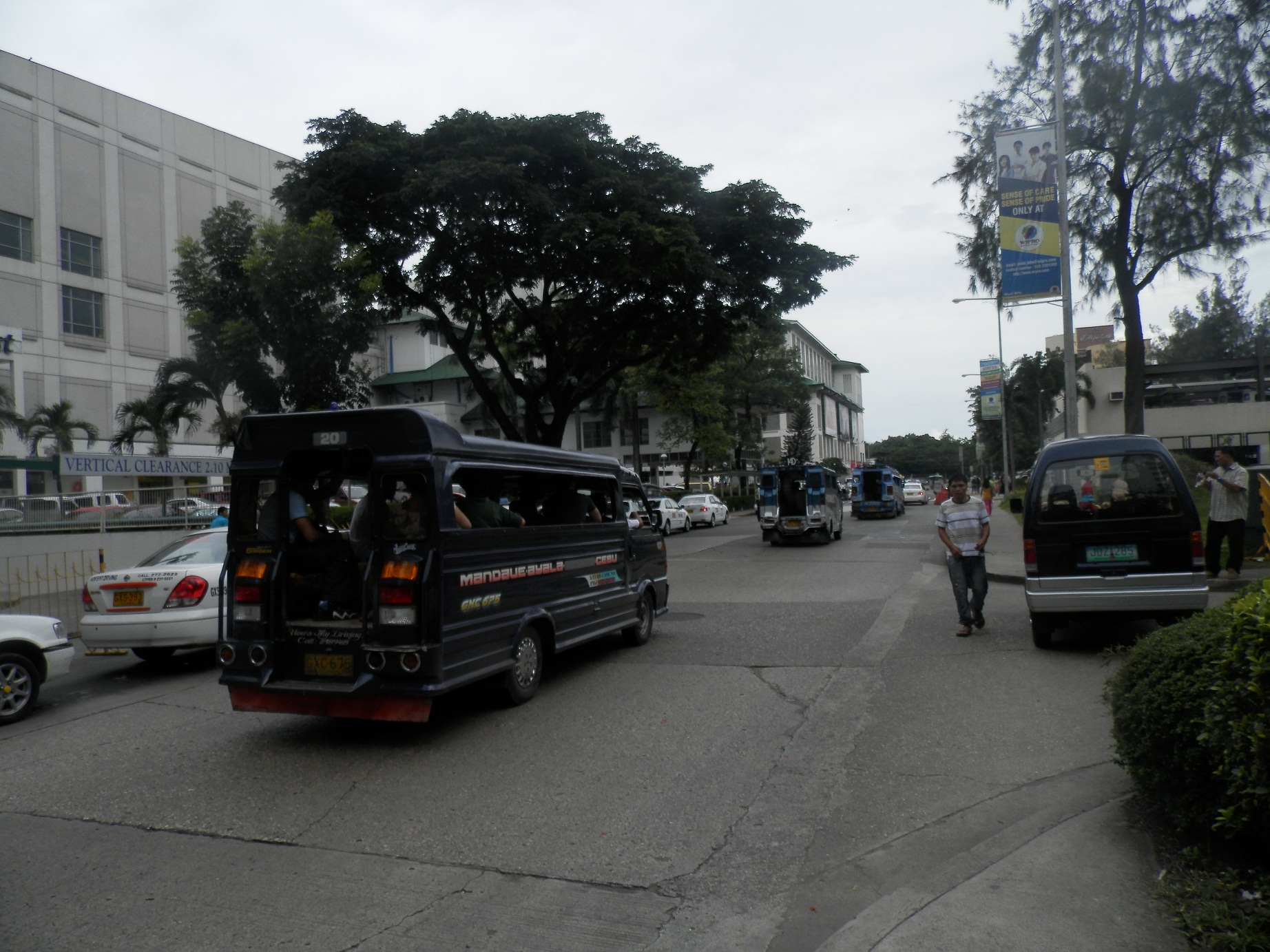 Jeepneys on Cebu streets